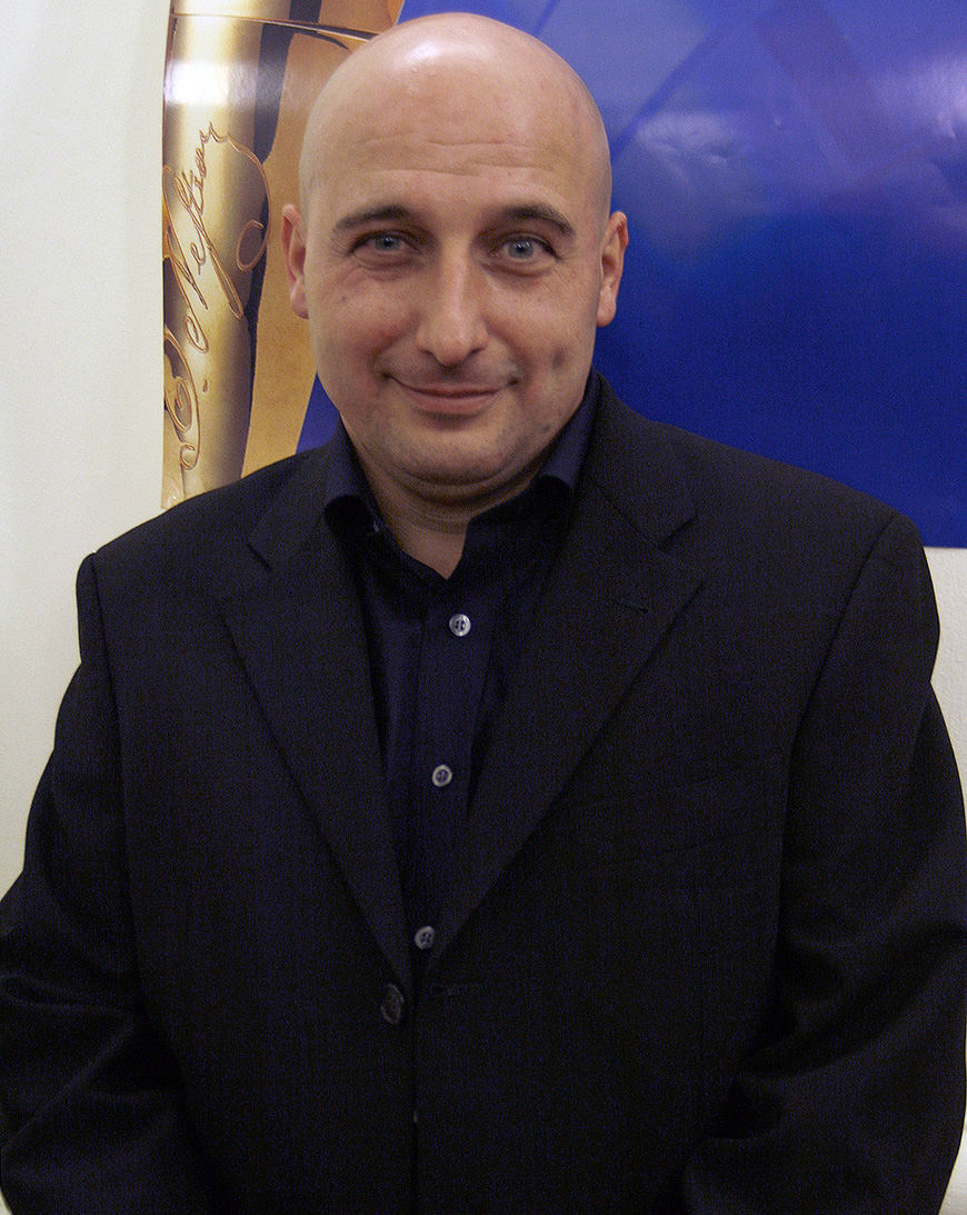 Actor Christoph Fälbl at the Nestroy-Theaterpreis (Etablissement Ronacher, Vienna)